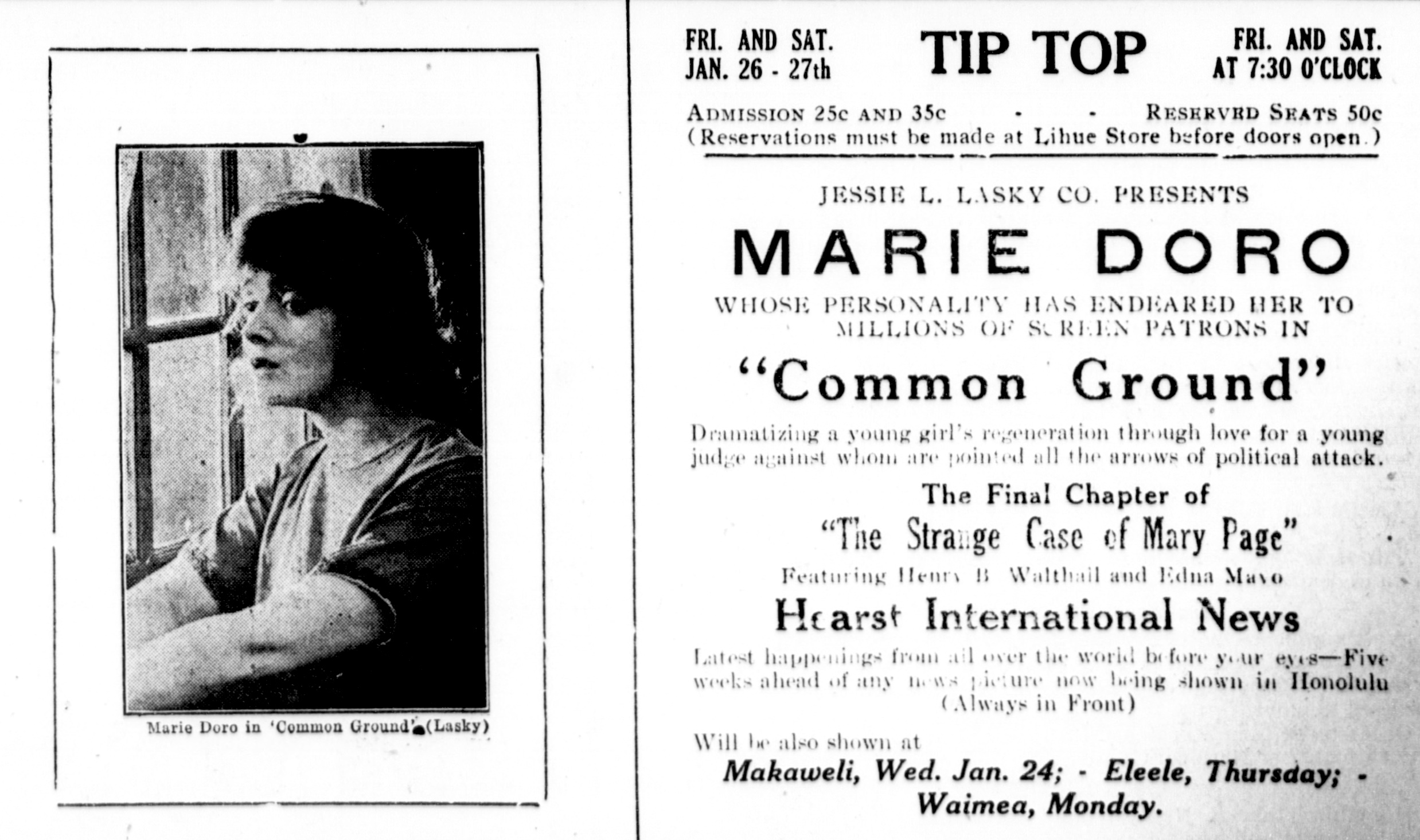 Common Ground is a lost 1916 silent film drama produced by Jesse Lasky, directed by William C. deMille and distributed by Paramount Pictures. This is a newspaper advertisement for the film.